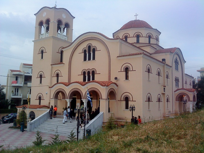 A church at Lykovrysi